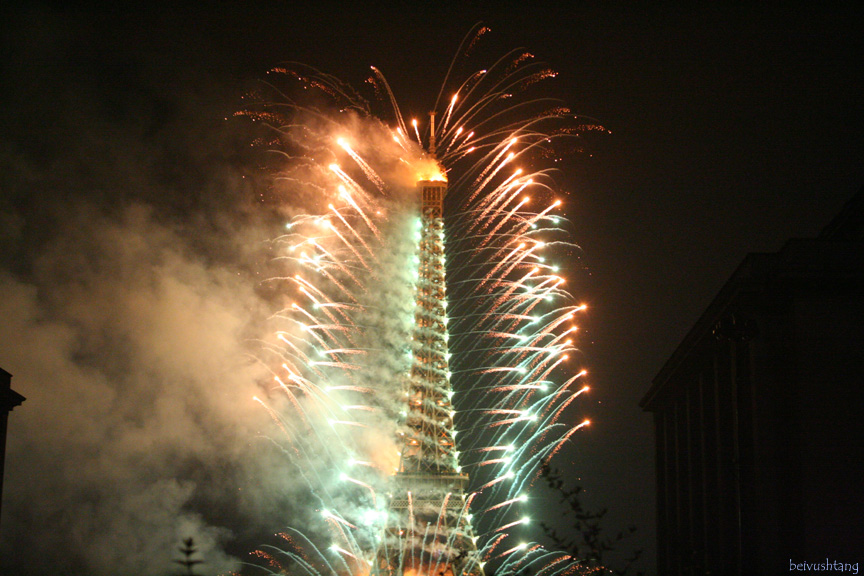 Eiffel tower fireworks on July 14th Bastille Day.